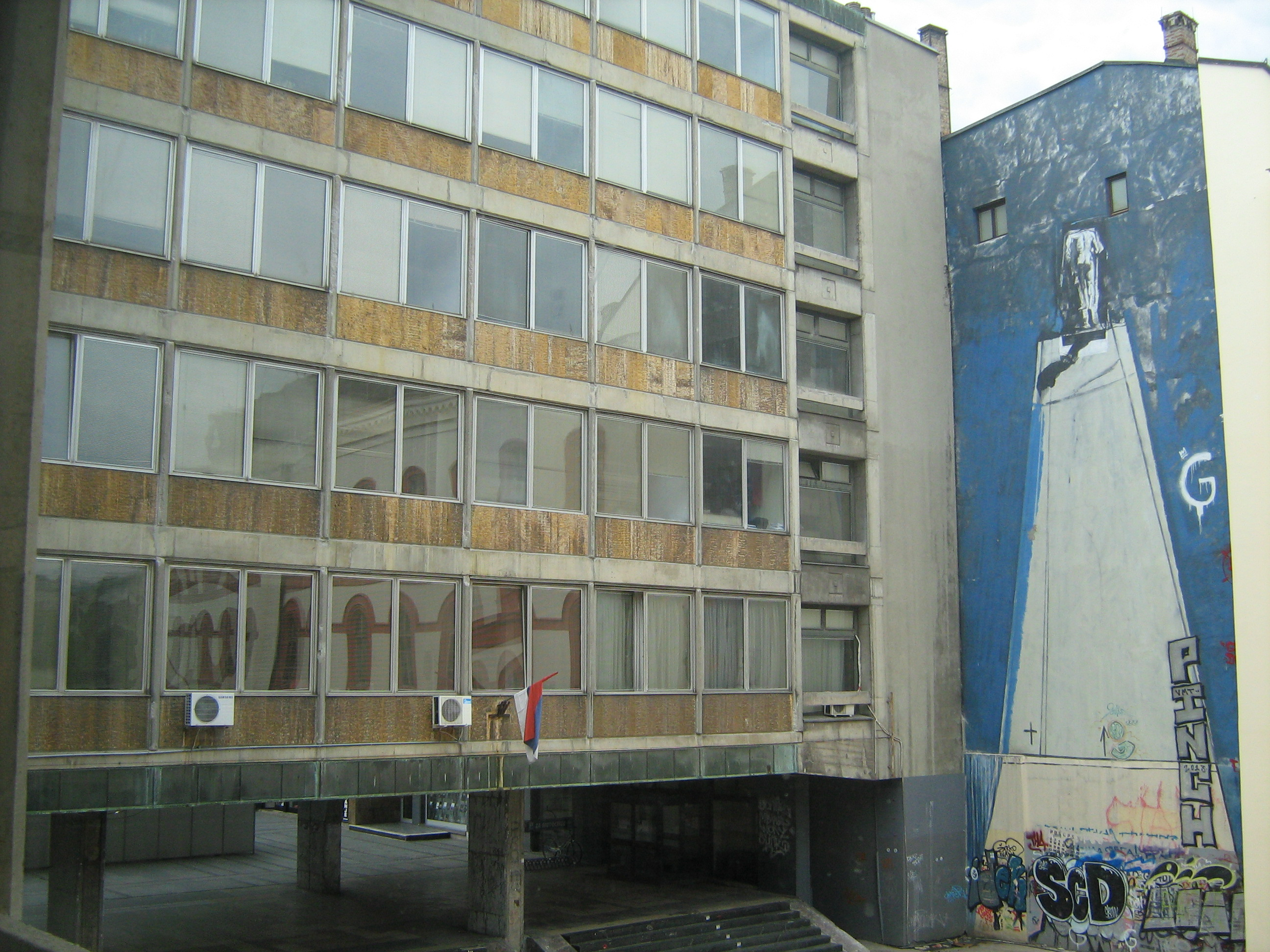 University of Belgrade, Faculty of Philosophy